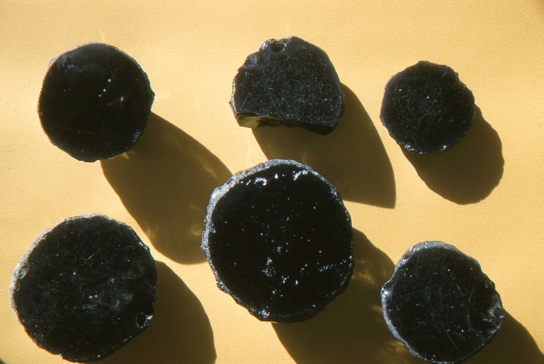 Neolithic mirrors of obsidian from Çatalhöyük.